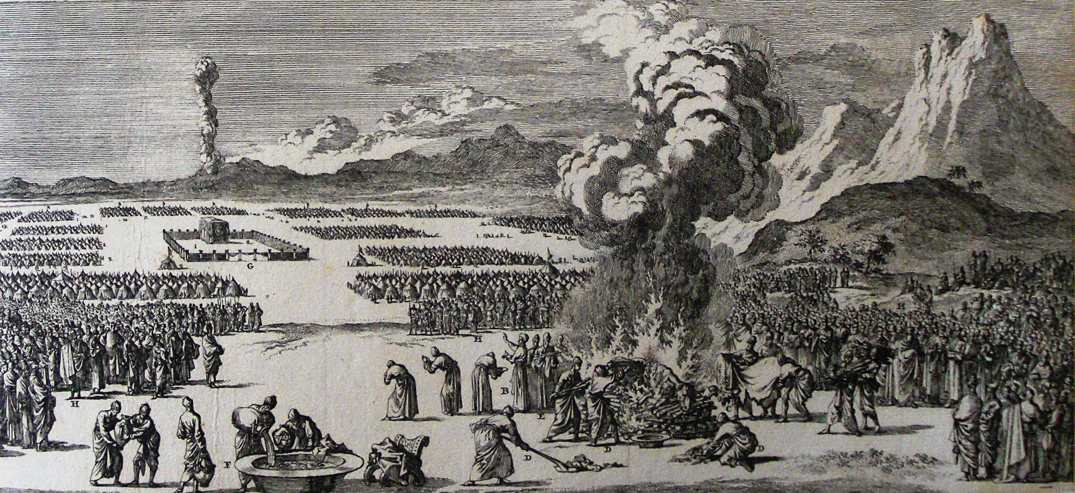 A print from the Phillip Medhurst Collection of Bible illustrations in the possession of Revd. Philip De Vere at St. George’s Court, Kidderminster, England.